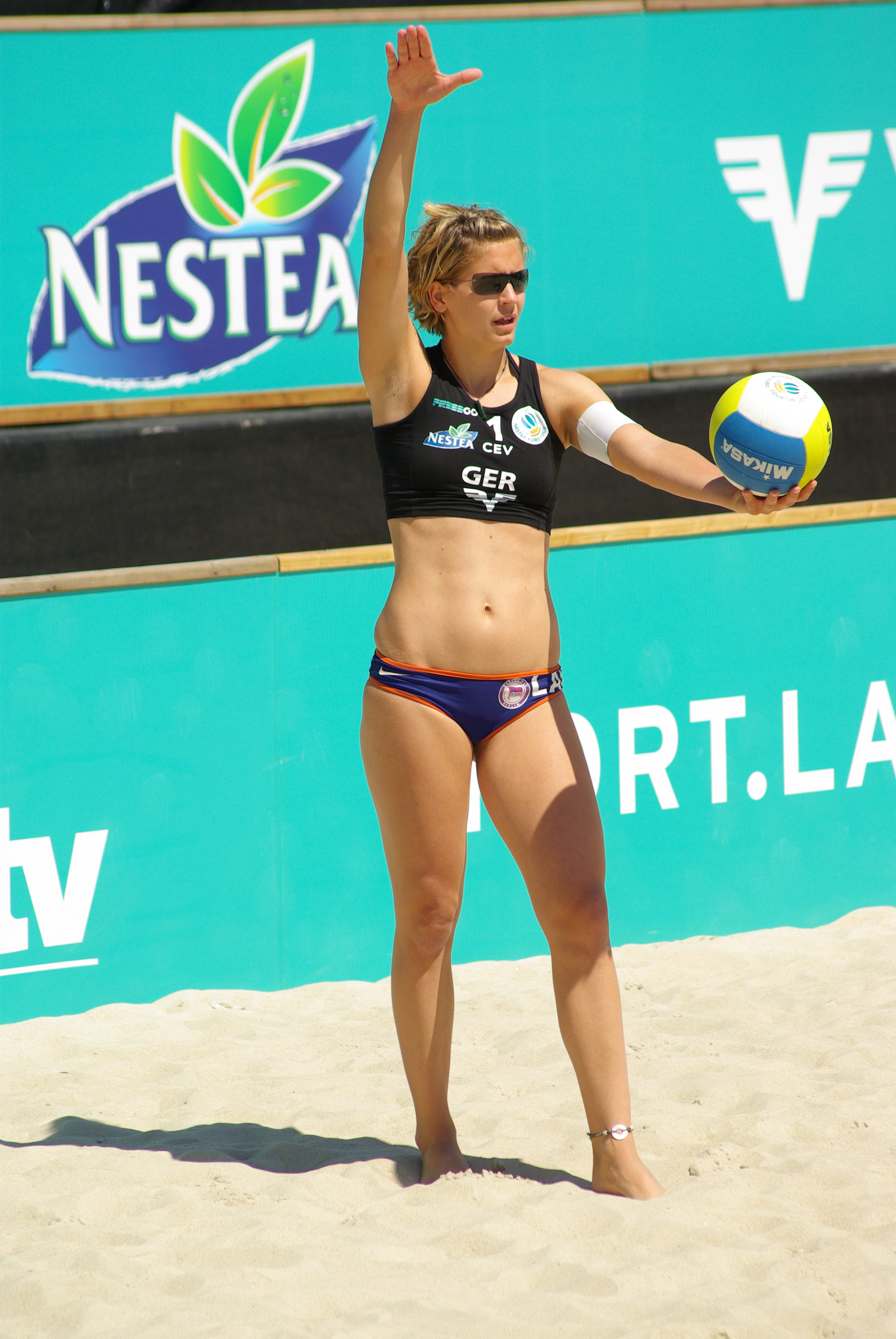 German Beach volleyball player Laura Ludwig at the European Championship Tour 2008 Austrian Masters in St. Pölten.